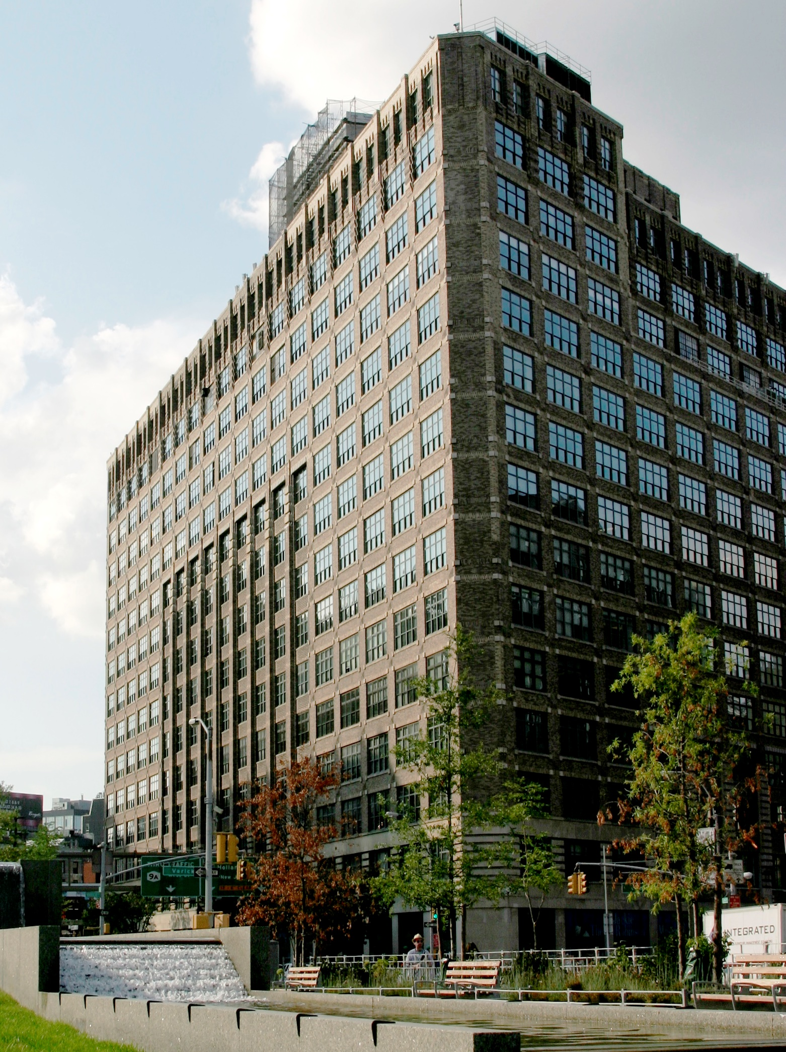 The Holland Plaza Building, now known as One Hudson Square, at 75 Varick Street with facades on Canal, Hudson and Watts Streets in the TriBeCa neighborhood of Manhattan, New York City, was built c.1930 and was designed by Ely Jacques Kahn in the classical-modern style.